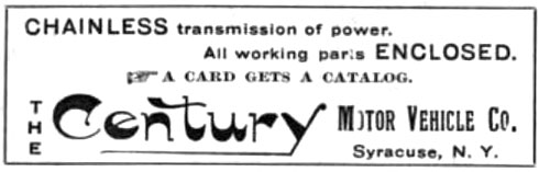 Century Motor Vehicle Company - Chainless transmission of power